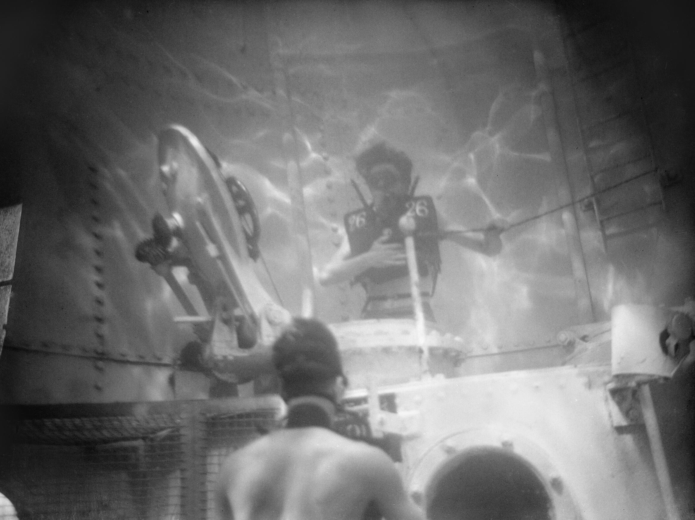 New Davis Breathing Apparatus Tested at the Submarine Escape Test Tank at HMS Dolphin Gosport, 14 December 1942 At the submarine service school, HMS DOLPHIN, a trainee submarine rating coming through the 'escape' hatch into the instructional tank wearing the Davis Breathing Apparatus. An instructor stands nearby.